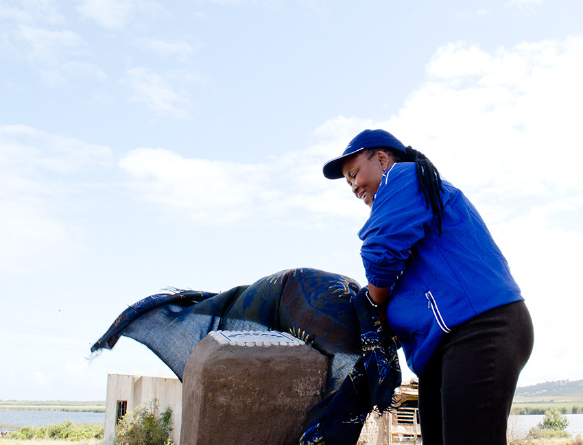 Portions 18-36, Farm Verlorenvlei No 8, Elands Bay was formally gazetted as a Provincial Heritage Site on 23rd September 2014. Provincial Govt Gazette #7310, PN256/2014. It was opened by MEC for Culture and Sport, Nomafrench Mbombo 0n 29th September 2014. This media shows a South African Protected Site with SAHRA file reference HM\WESTCOAST\CEDERBERG\VERLORENVLEI HERITAGE VILLAGE.